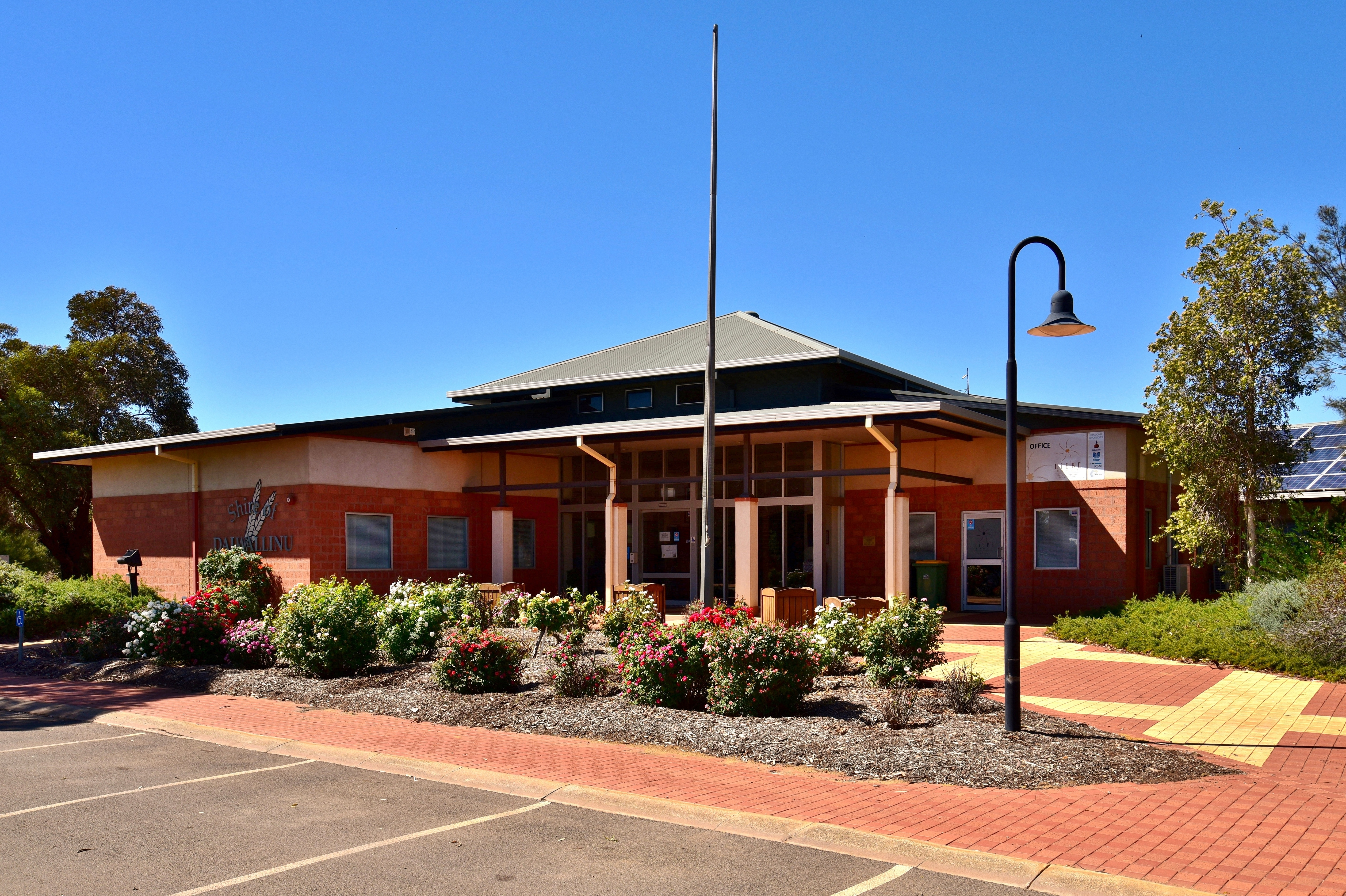 View of the shire offices, Johnston Street, Dalwallinu, Western Australia